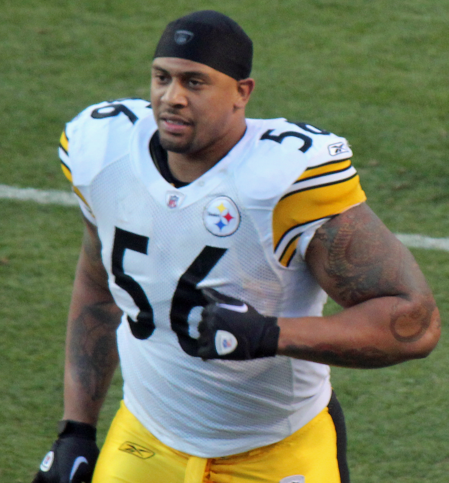 LaMarr Woodley, a player on the National Football League.